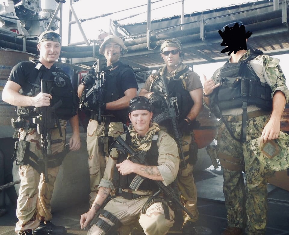 USS Whirlwind PC-11 VBSS team working in joint task force with US Navy SOF in Persian Gulf